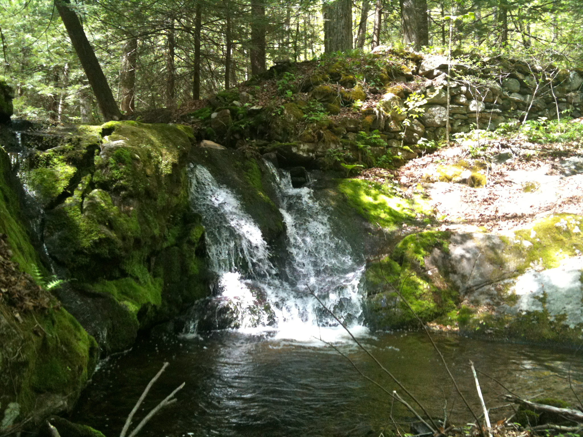 Jericho Blue-Blazed Trail. Jericho Brook waterfall flowing over dam into pool.